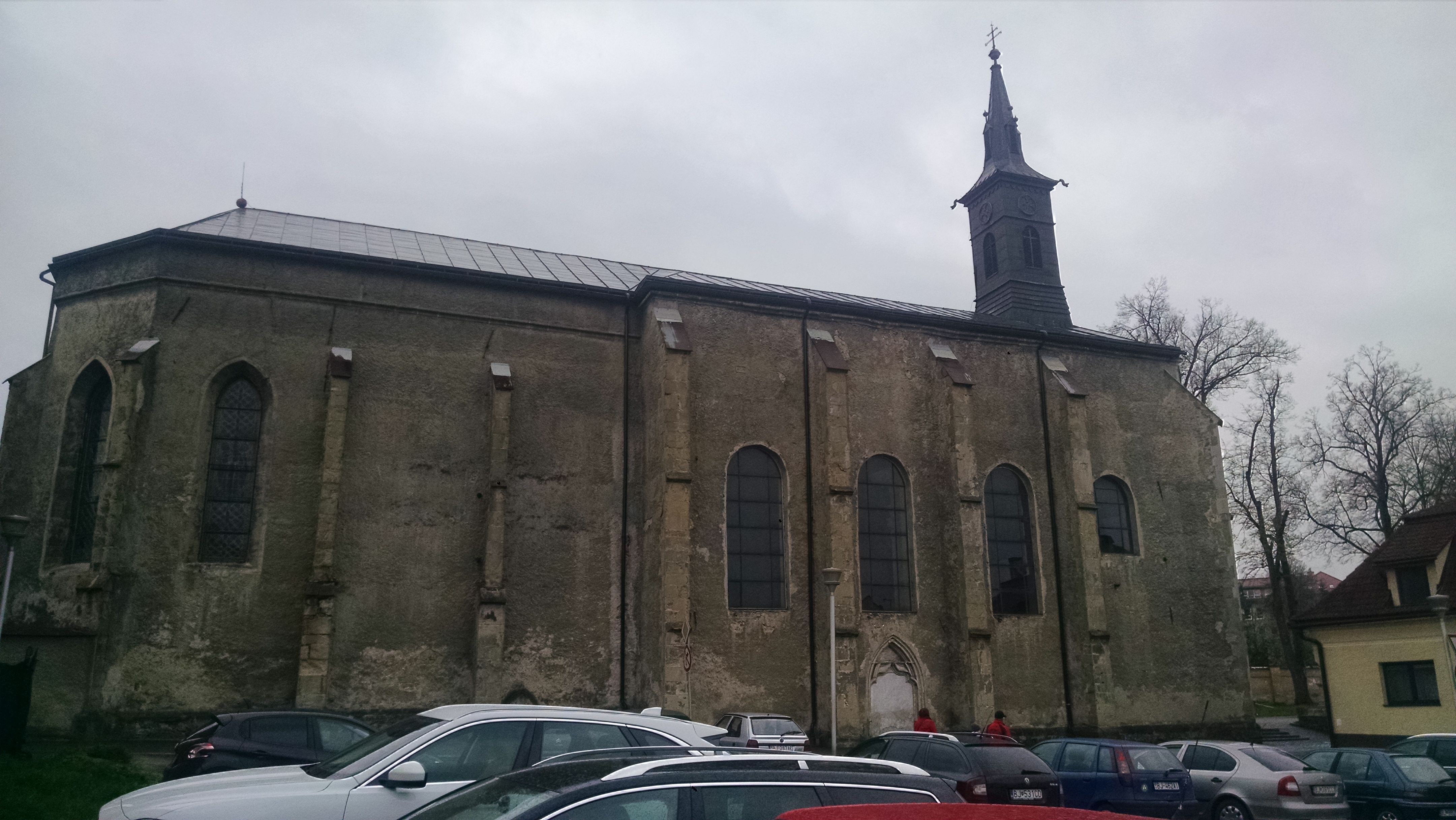 Severná strana kostola zakončená na východnej strane polygonálnym presbytériom